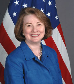 Patricia McMahon Hawkins. As of 2009, the U.S. Ambassador to Togo.